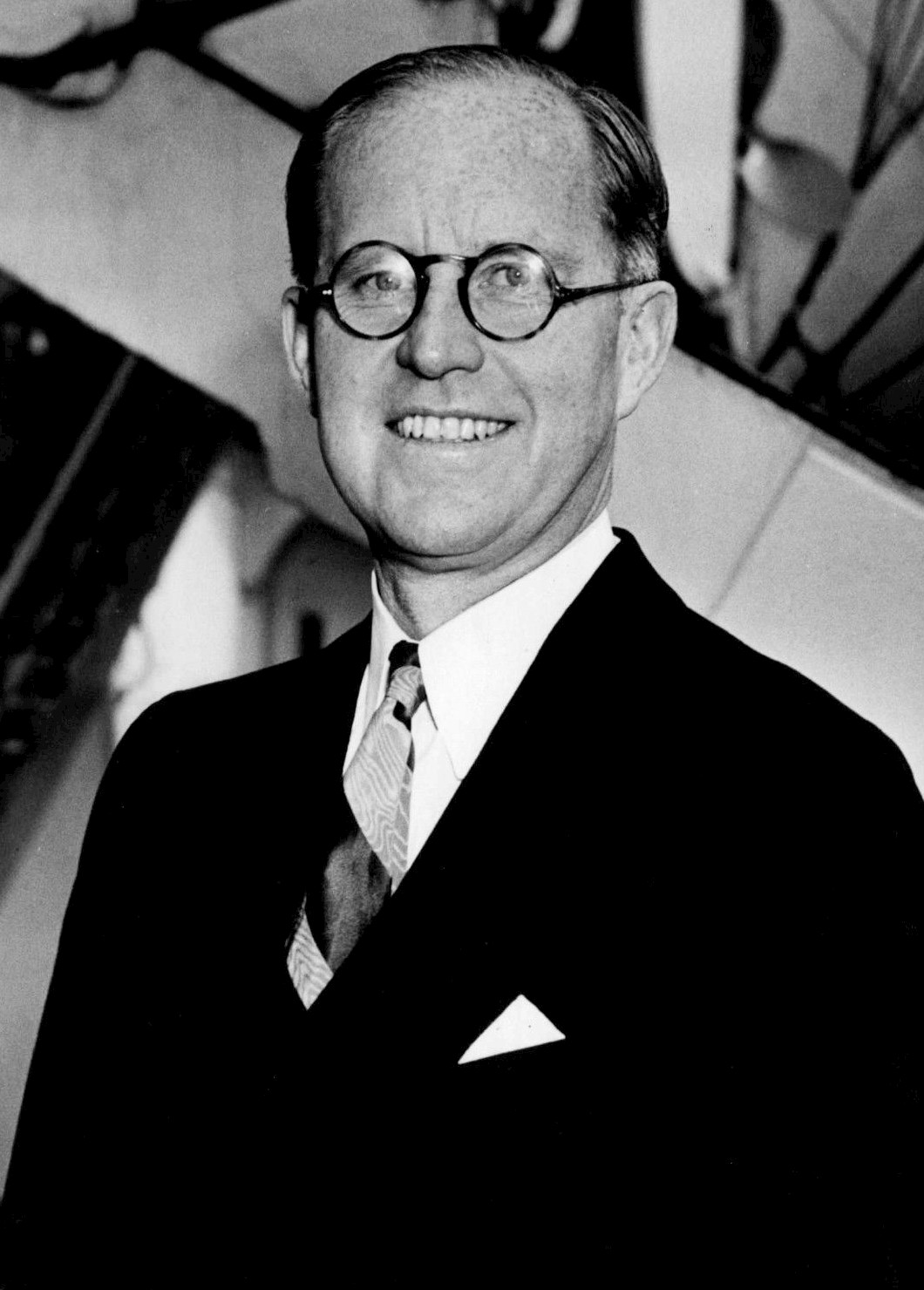 Photo of Joseph P. Kennedy, Sr. He was the United States Ambassador to Great Britain at the time this photo was taken.